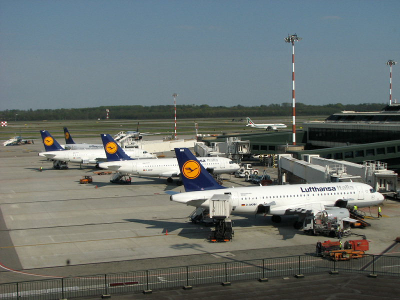 Some planes of Lufthansa Italia at Milan Malpensa